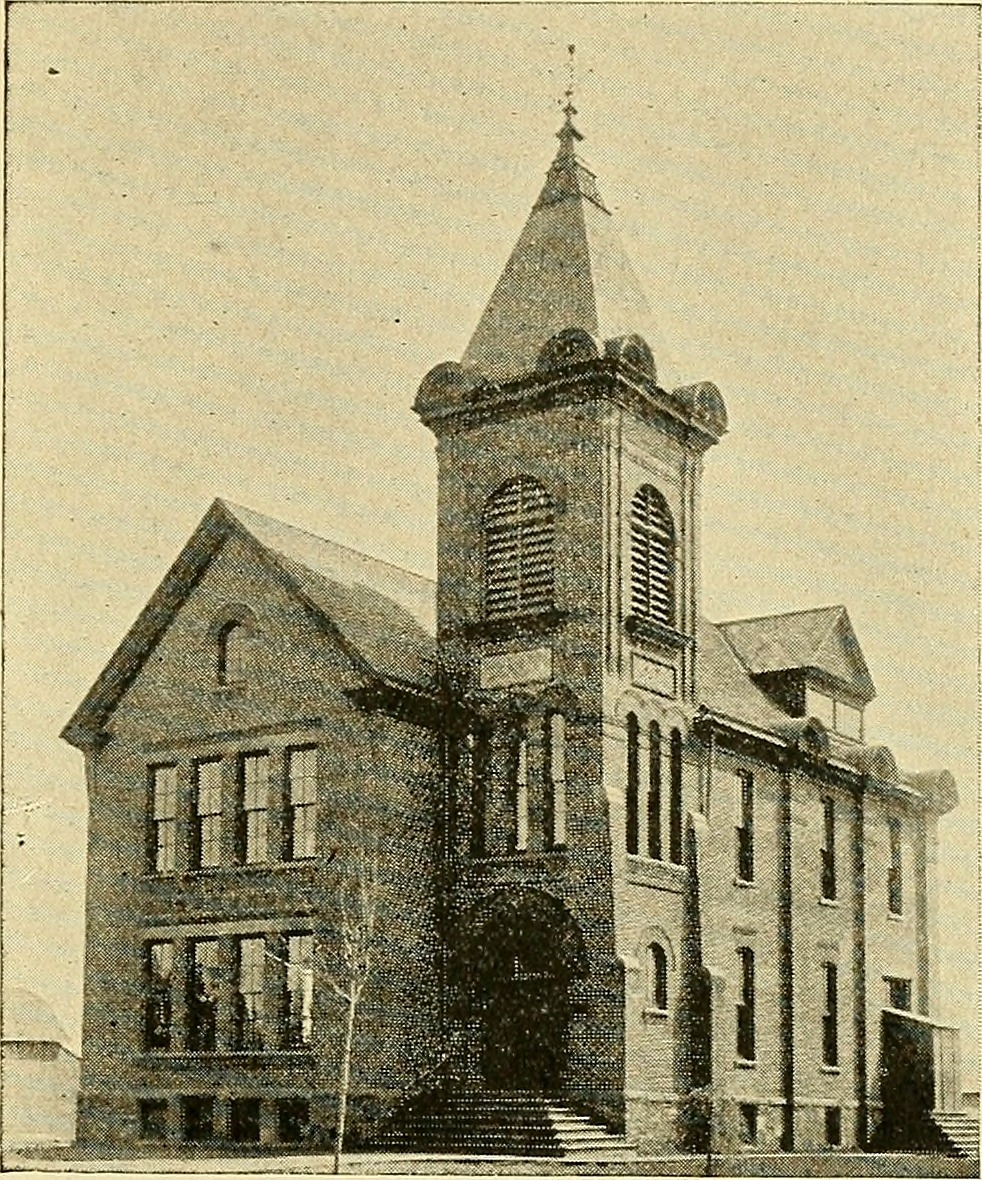 The Northside School (a.k.a. East Avenue School) in Fairport, New York as it appeared in the early 1900s